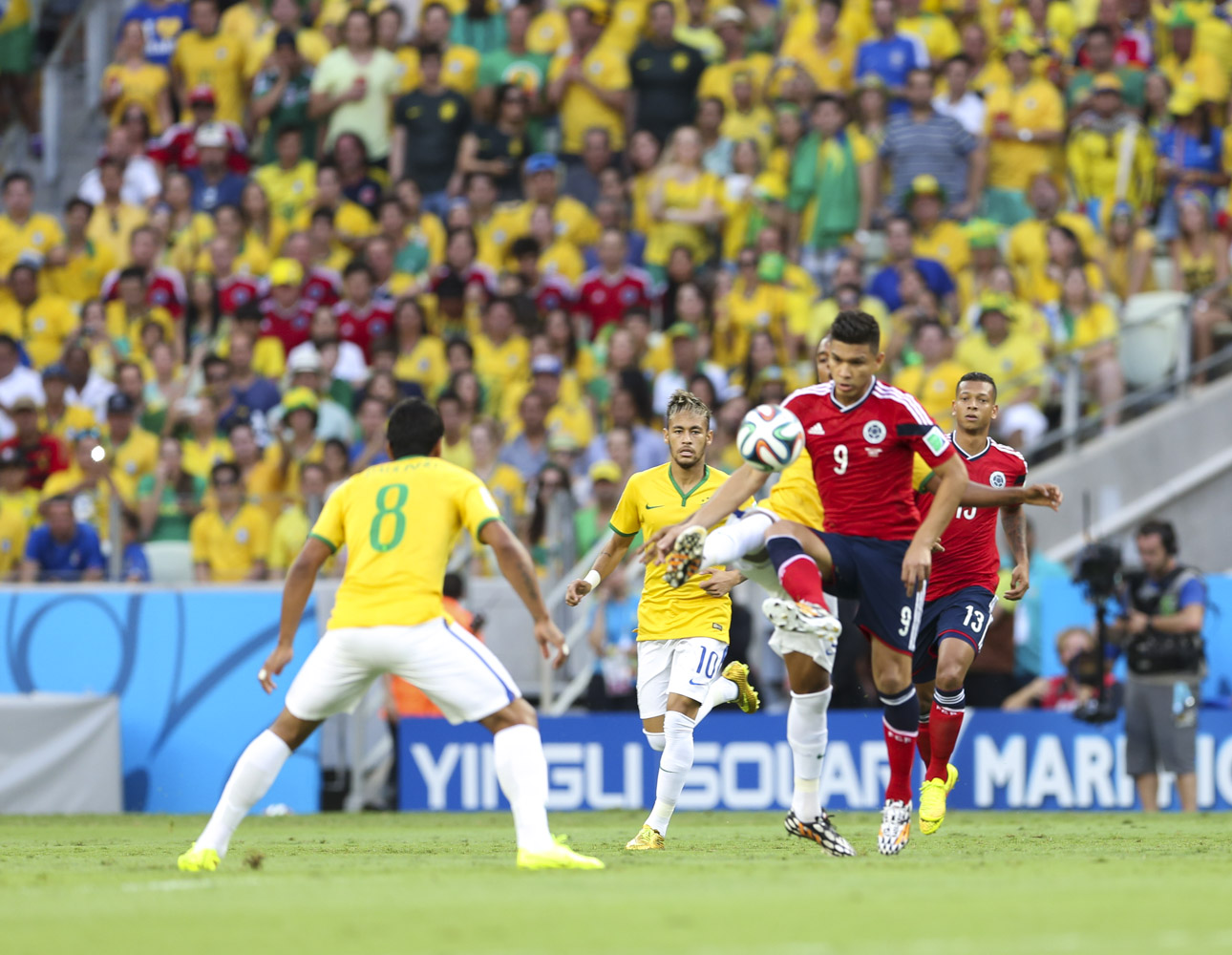 Brazil and Colombia match at the FIFA World Cup 2014-07-04